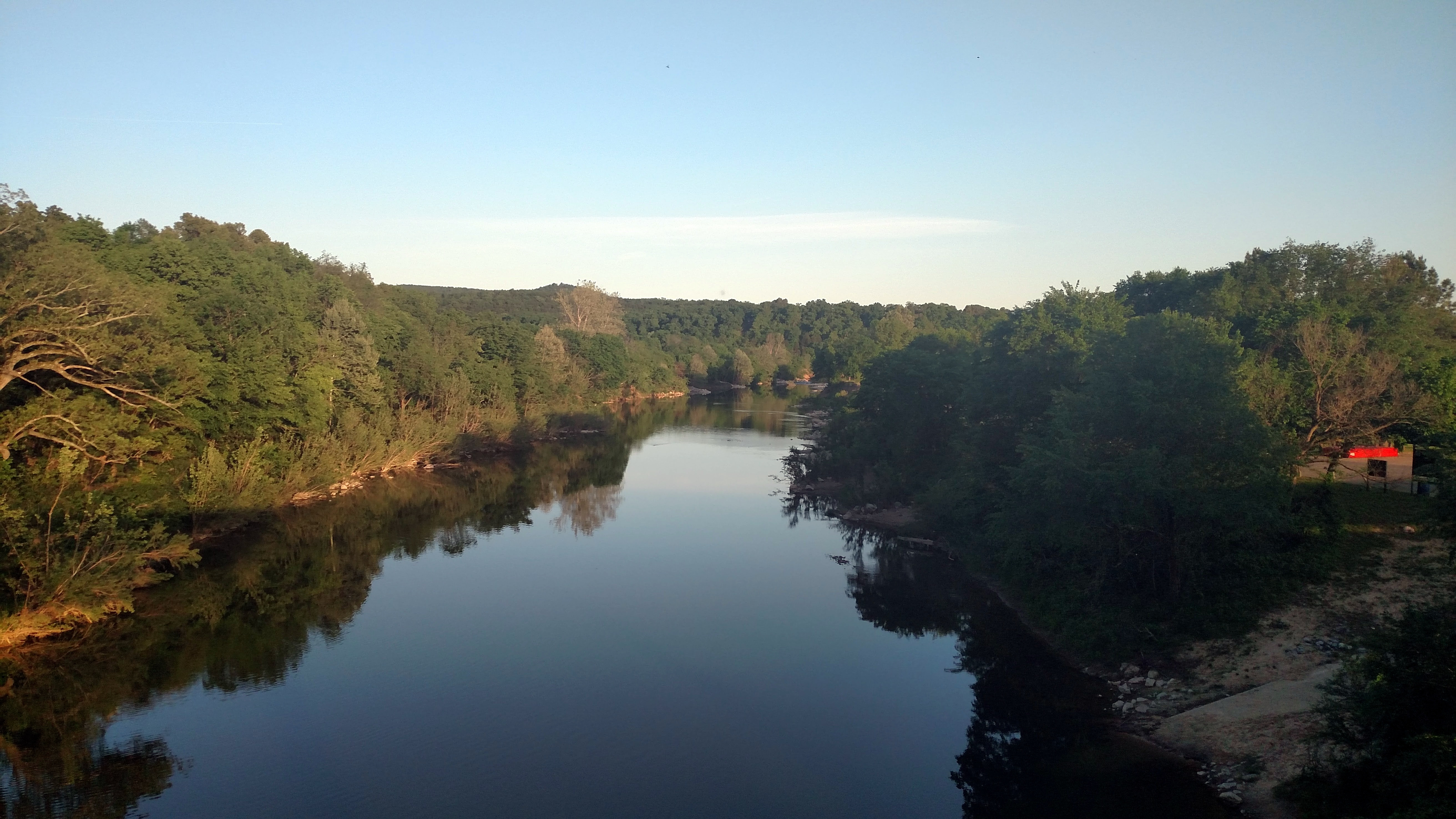 Crooked Creek at Highway 14 in Yellville